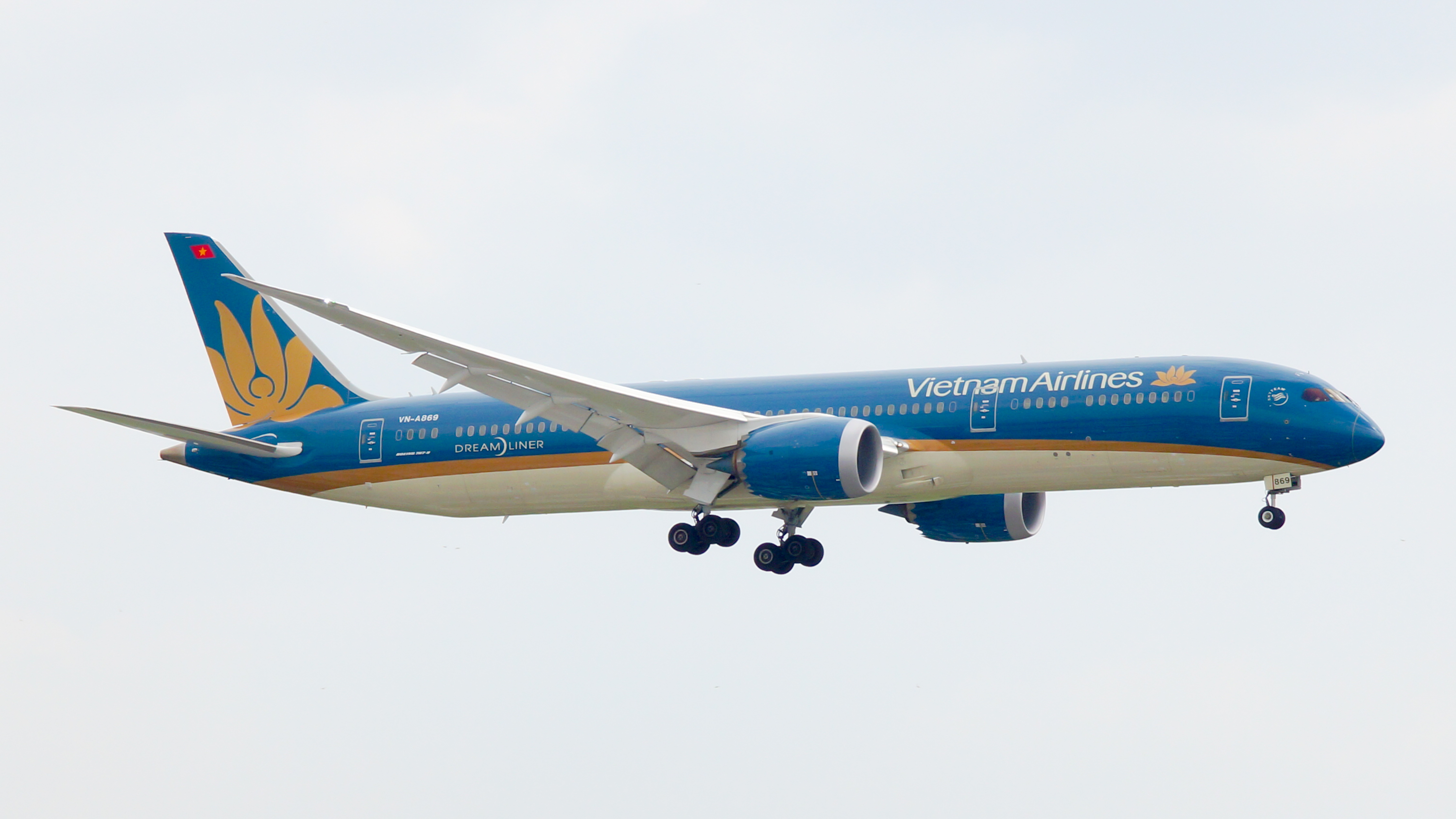 Vietnam Airlines Boeing 787-9 (VN-A869) landing at Tan Son Nhat Intl' Airport Vietnam Airlines Flight 301 (NRT–SGN)